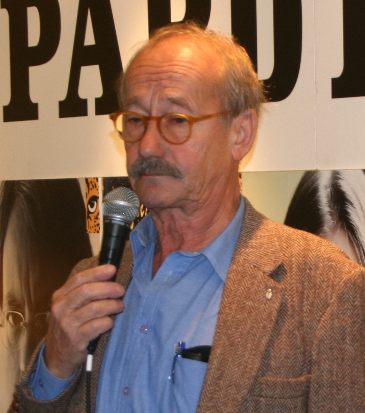 Gösta Ekman d.y., at Göteborg Book Fair.